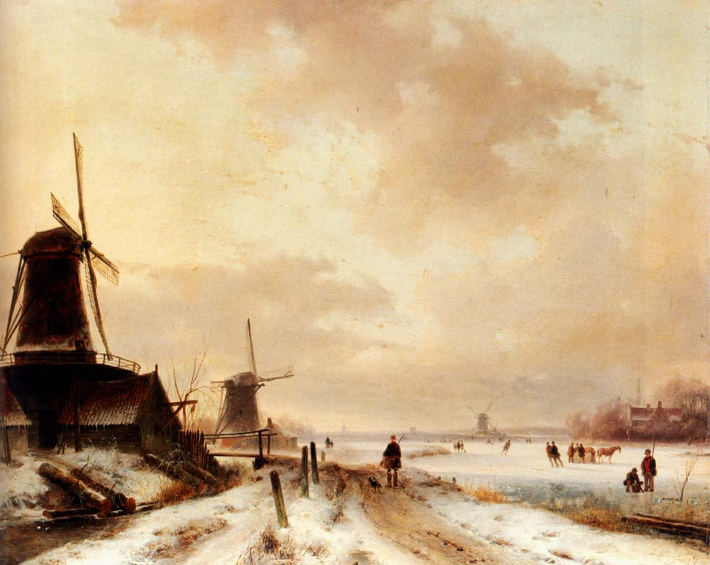 Winter: a huntsman passing woodmills on a snowy track, skaters on a frozen river beyond